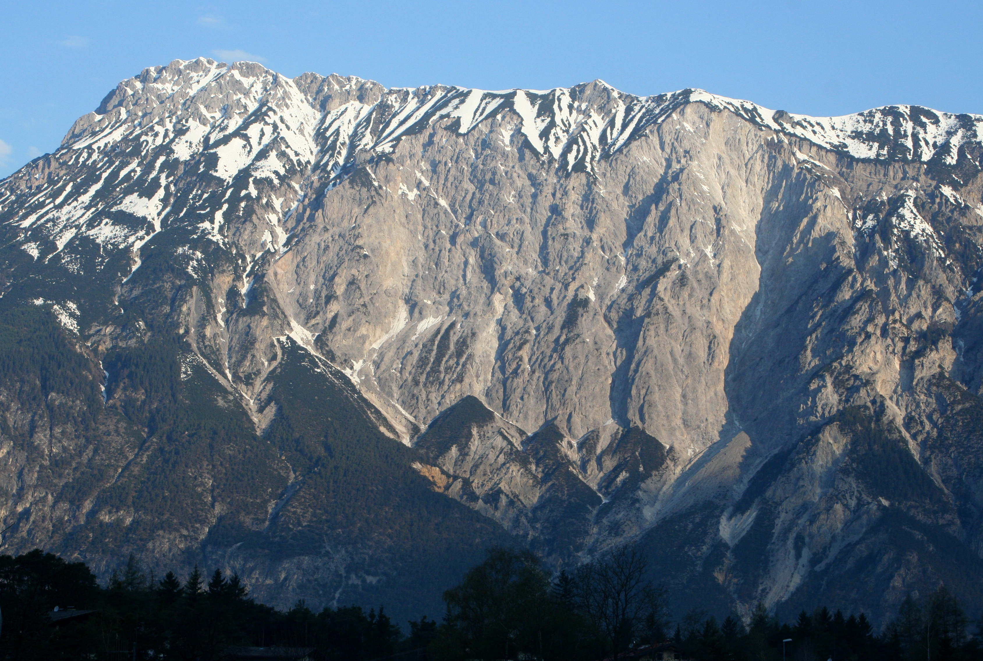 The Tschirgant from south (Ötztal)